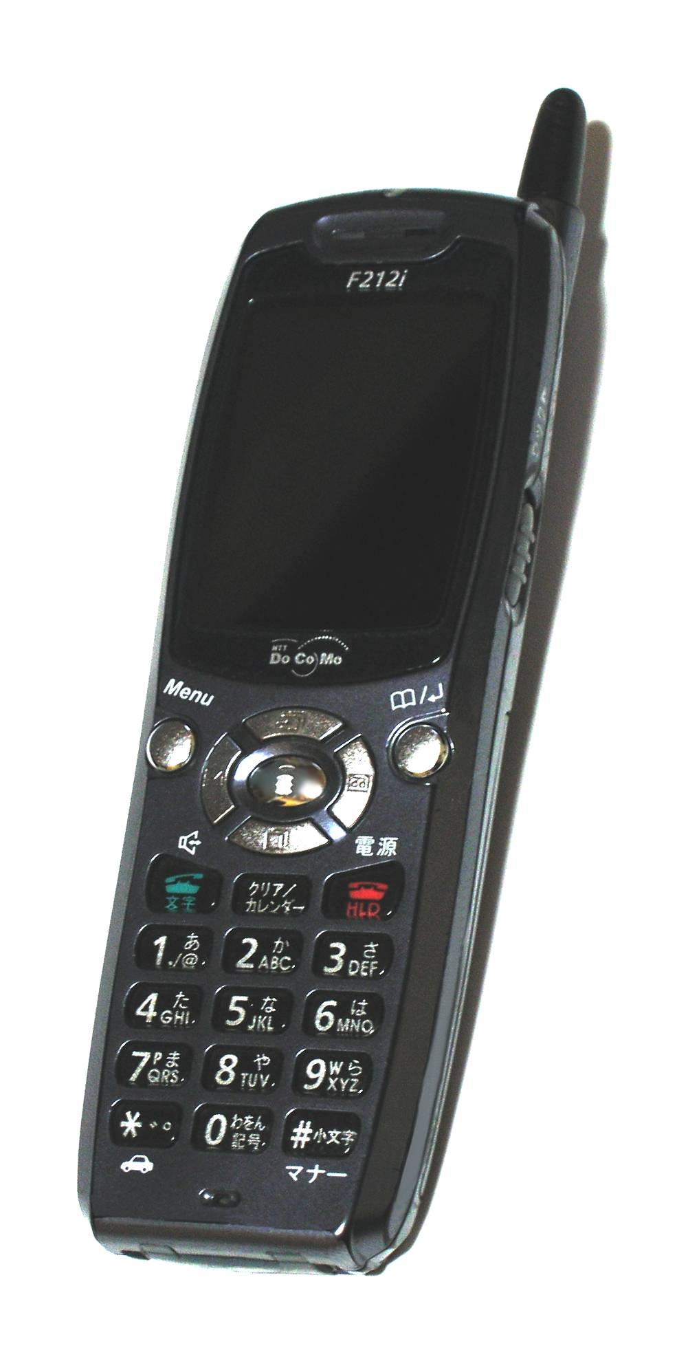 NTT DoCoMo mova F212i (dark-metal coloring) is a thin and light mobile phone. It was made for office workers.